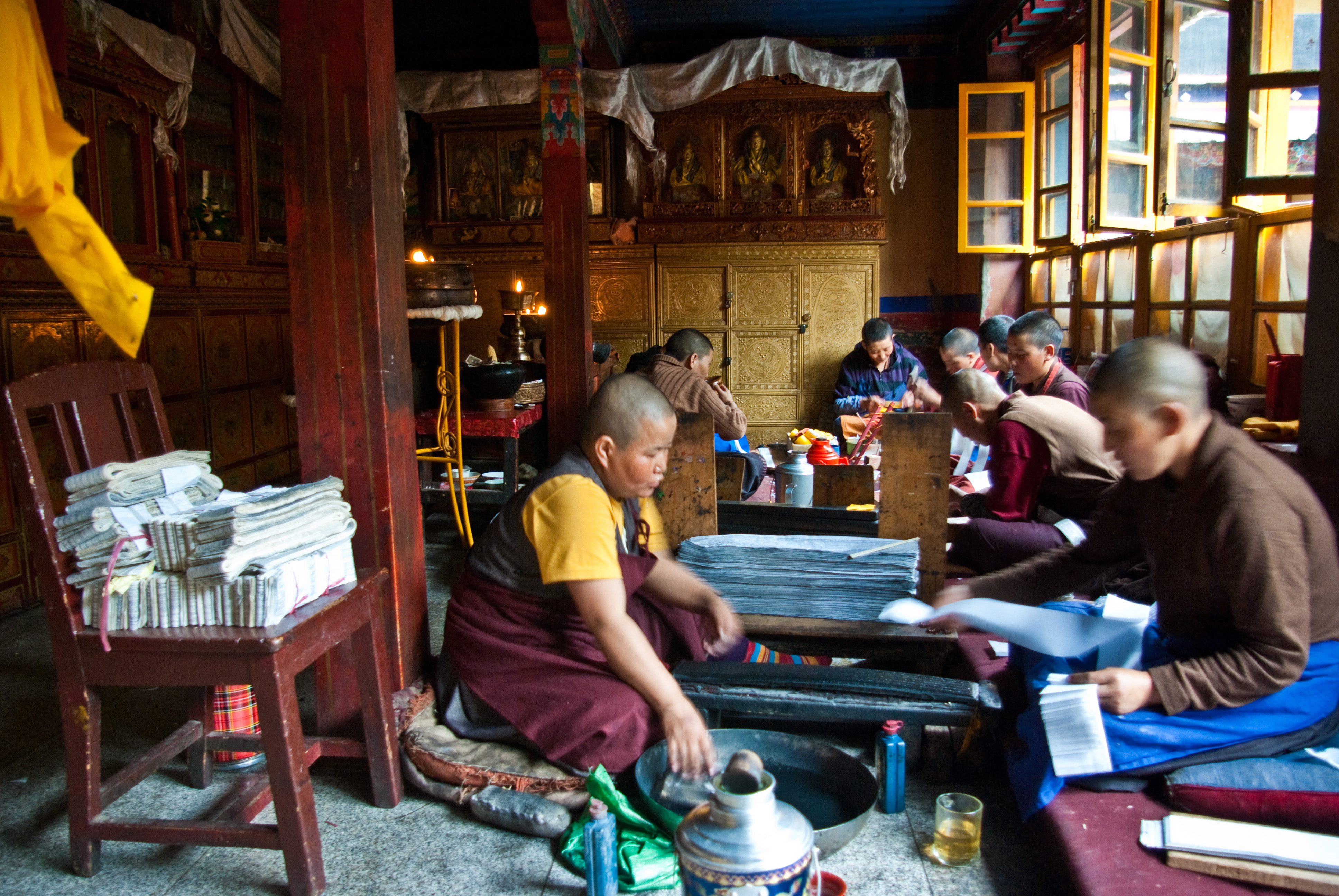 Ani Tsankhung (or Sankhung) Nunnery in Lhasa (printing of holy texts